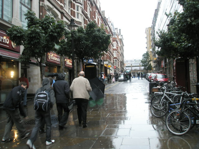 A wet and windswept Southampton Street